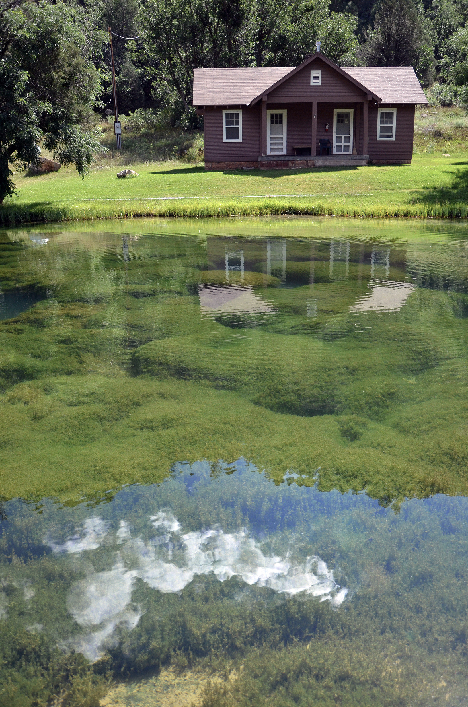 Big Springs Cabin and Pond on the North Kaibab Ranger District. DSC 0074. Credit the USFS, Southwestern Region, Kaibab National Forest.